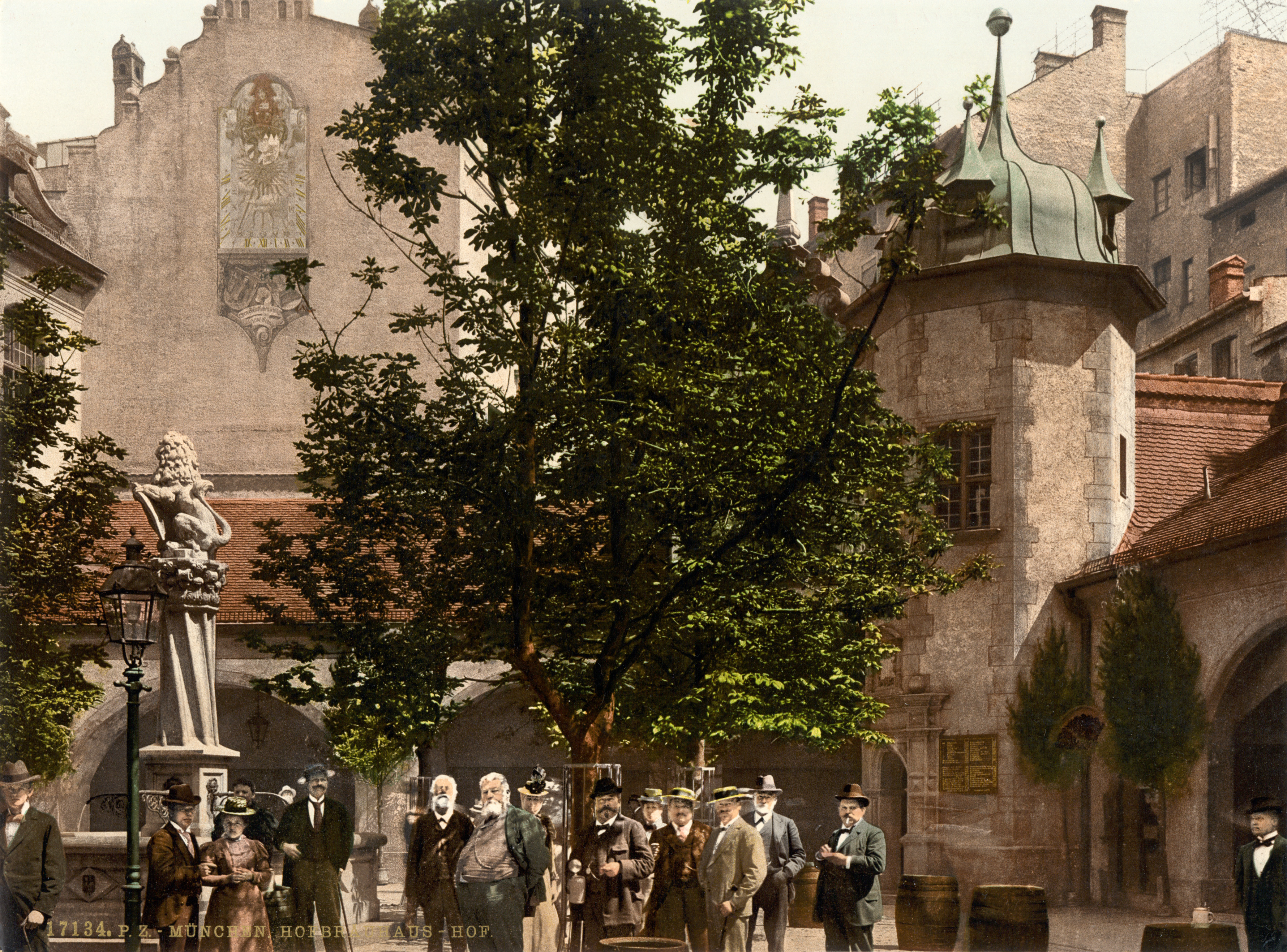 Courtyard of the famous Munich Hofbräuhaus on a postcard dating from late 19th century.